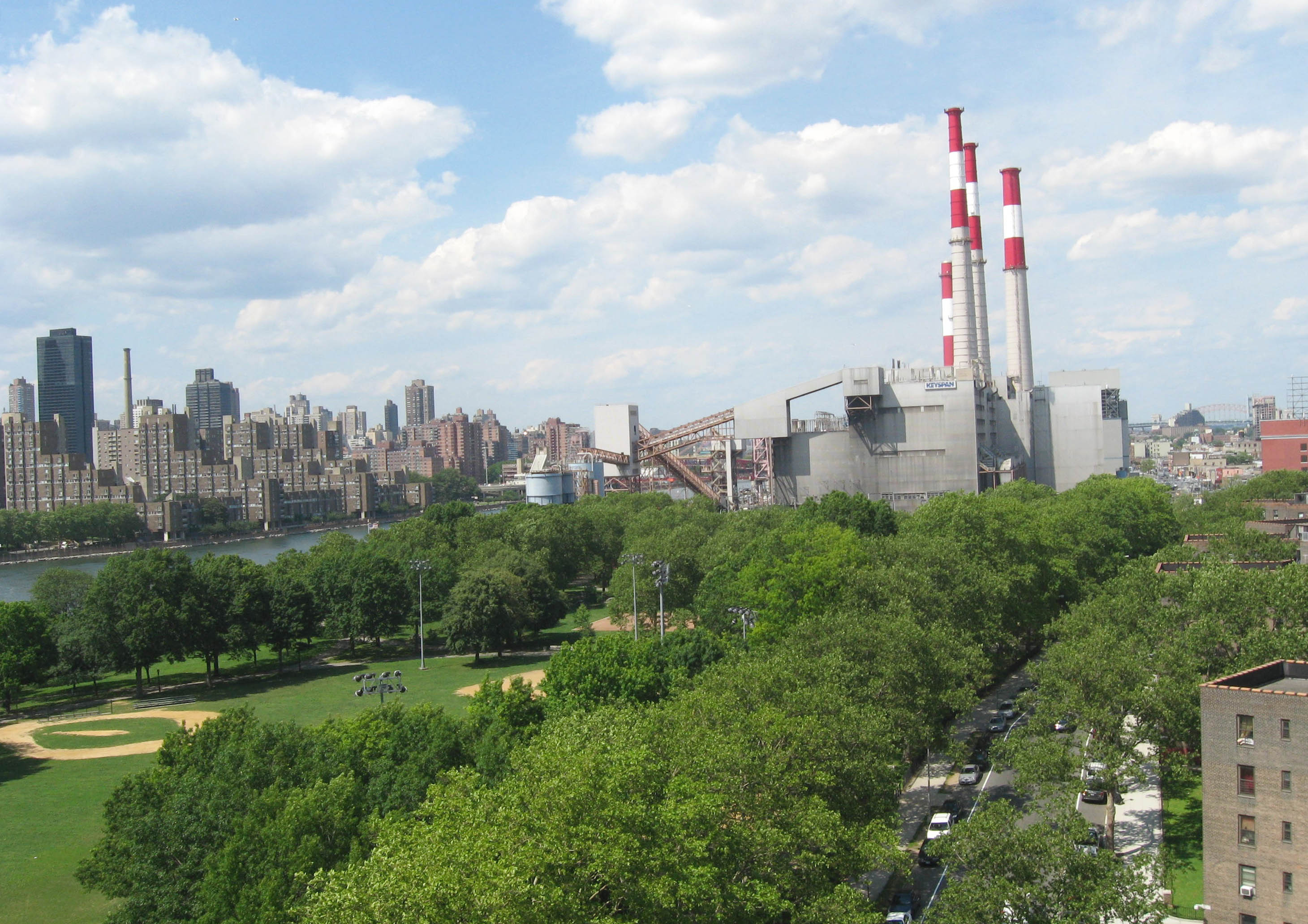 Looking north and down on Queensbridge Park in Queensbridge, Queens from Queensboro Bridge on a sunny early afternoon. See File:Queensbr NYCHA Vernon jeh.JPG for a slightly more west springtime view.